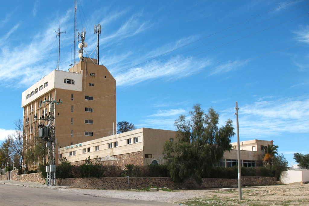 Margoa Arad hotel in Arad, Israel